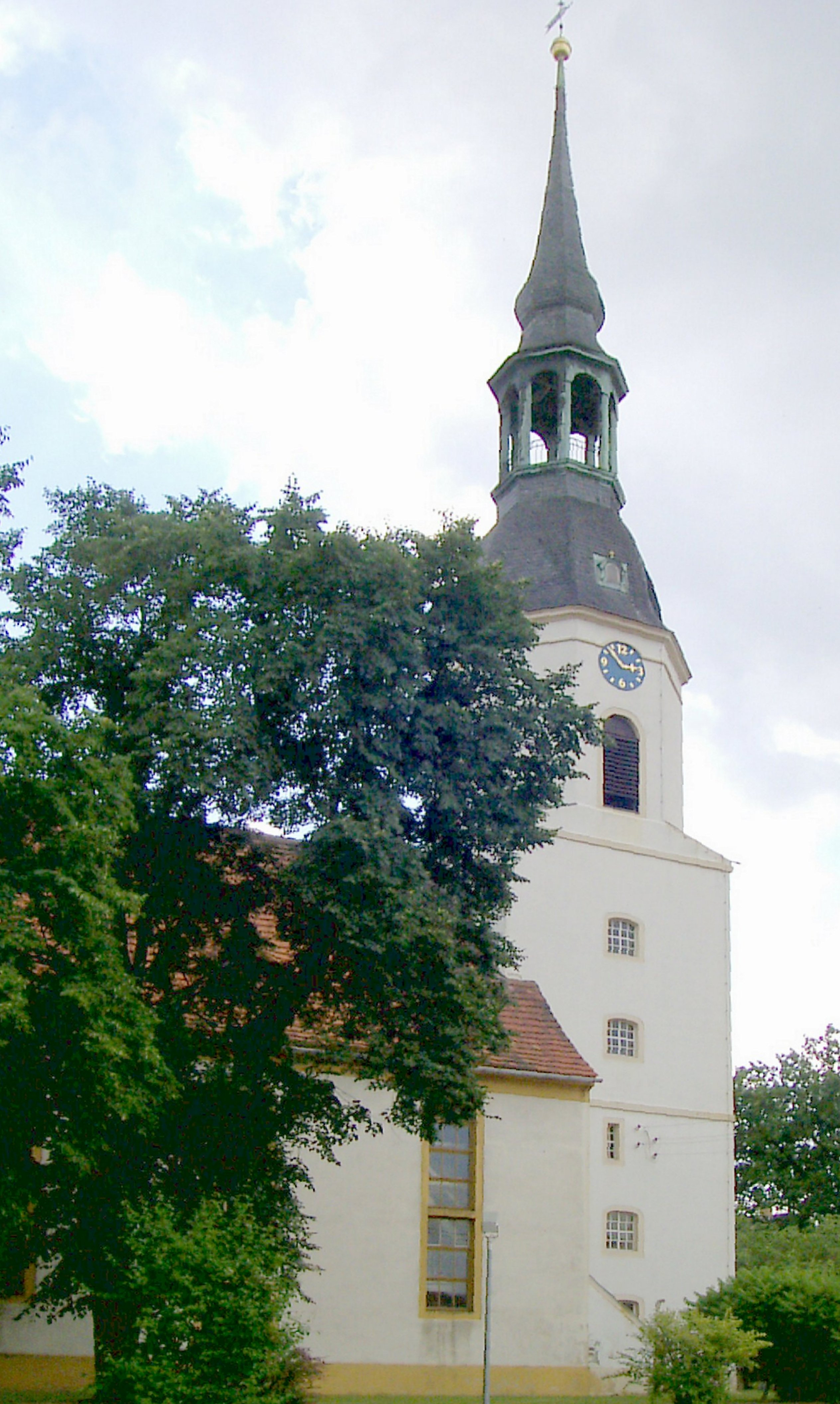 Hirschfeld church